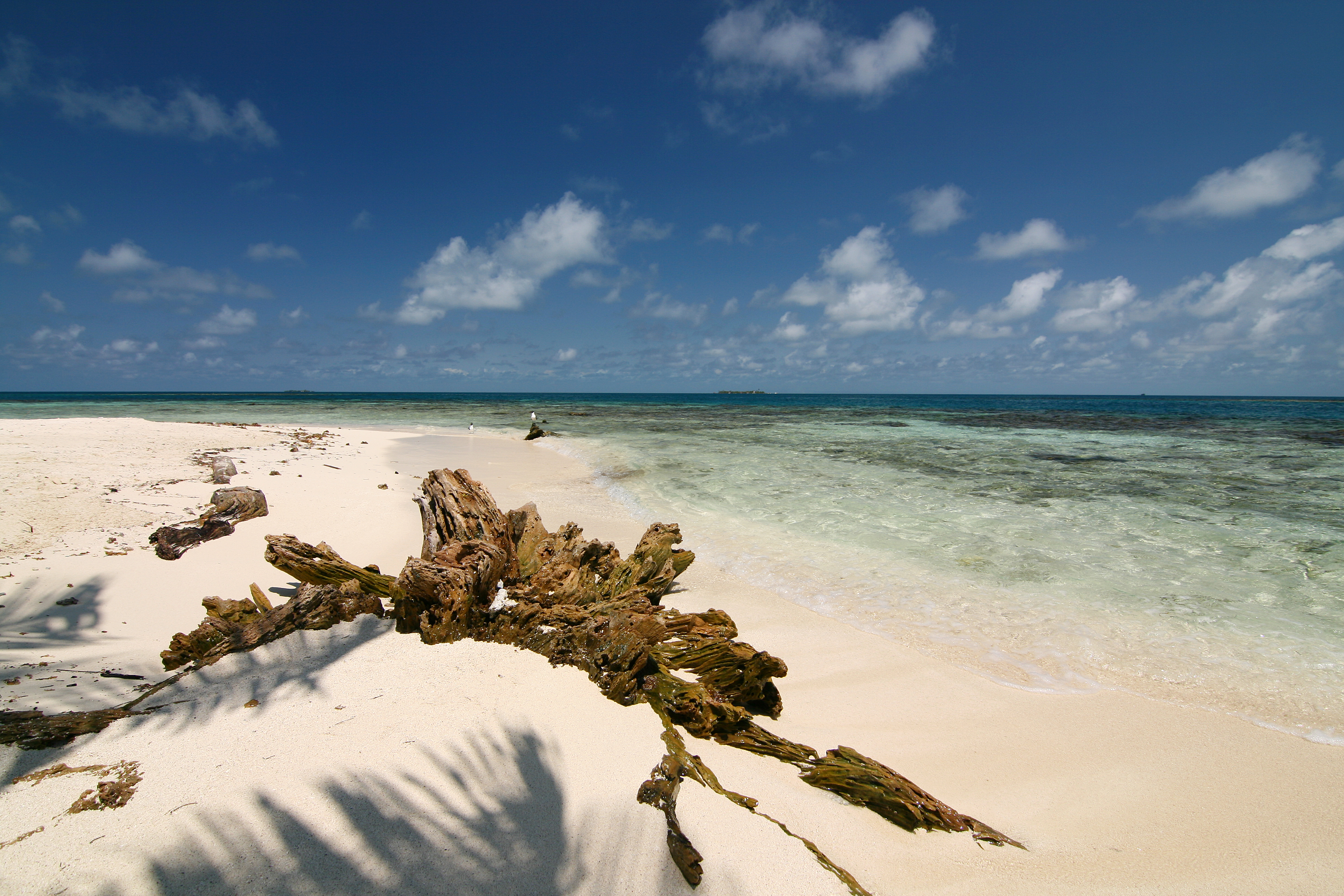 Silk Caye — in the Gladden Spit and Silk Cayes Marine Reserve, Belize.